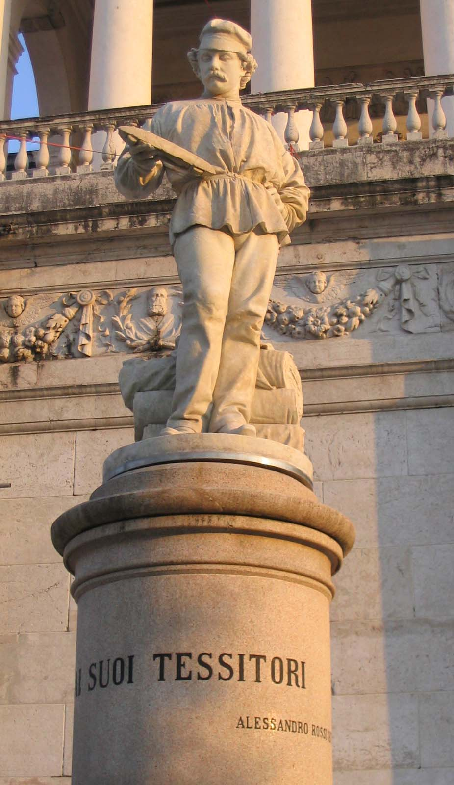 Schio - Vicenza - Italy, 1879, monument to weaver, called l'Omo (the man) by Giulio Monteverde (1837 - 1917)